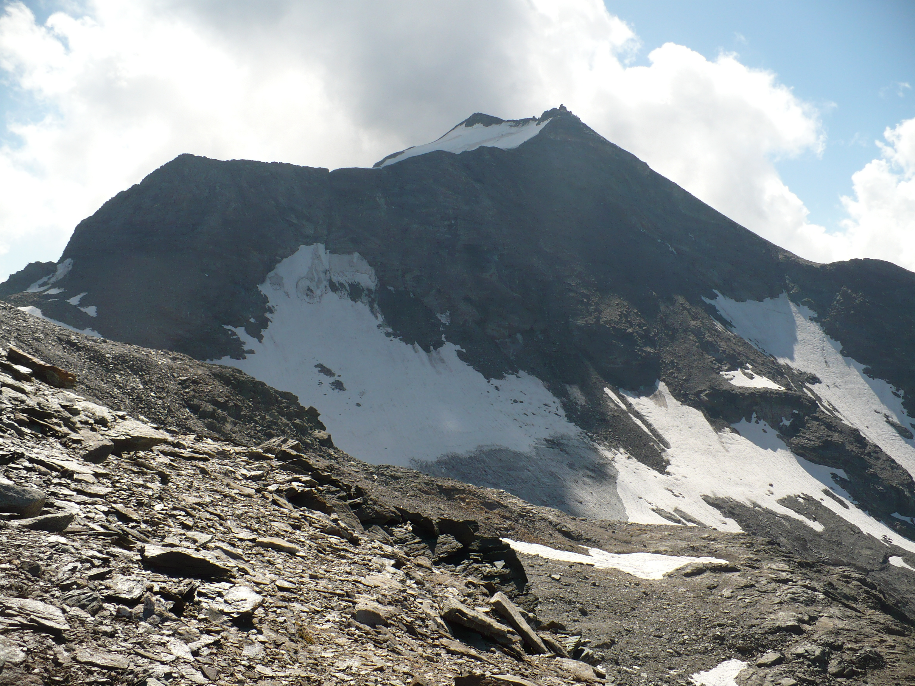 Croce Rossa (monte) (sud ridge) - Graian Alps